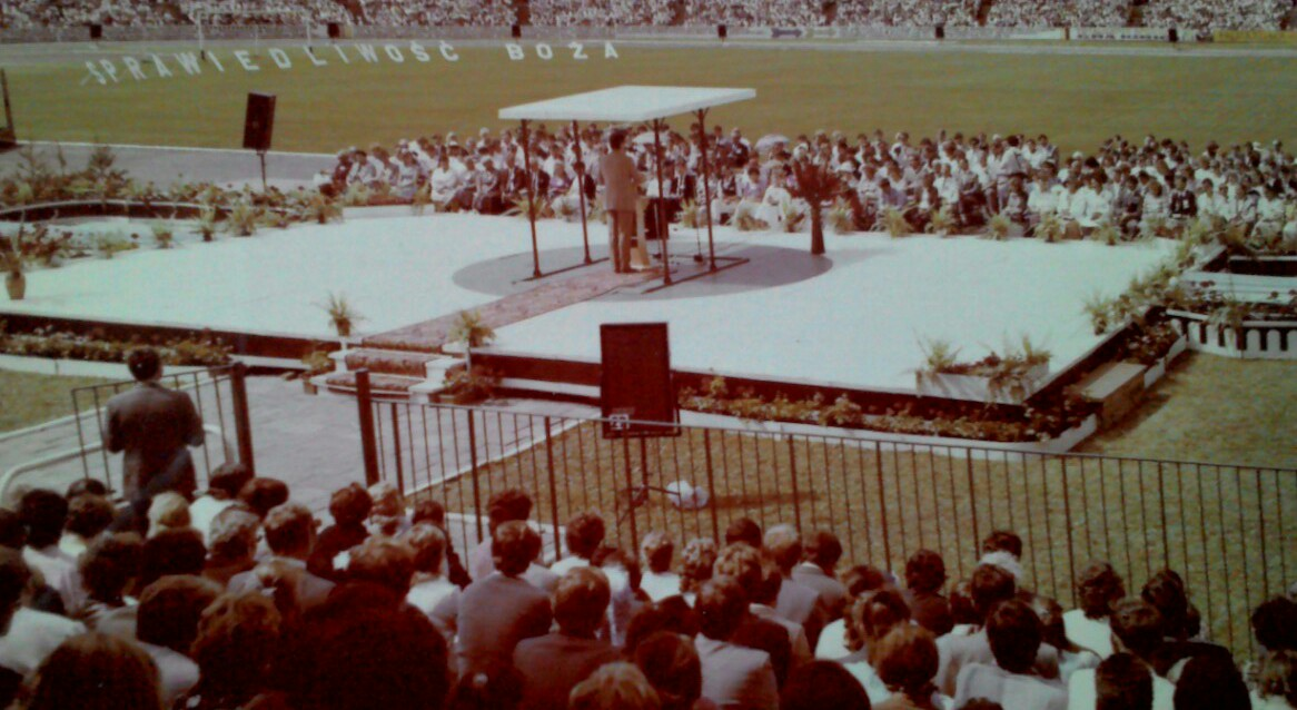 „Divine Justice” District Convention (1988, Kraków)